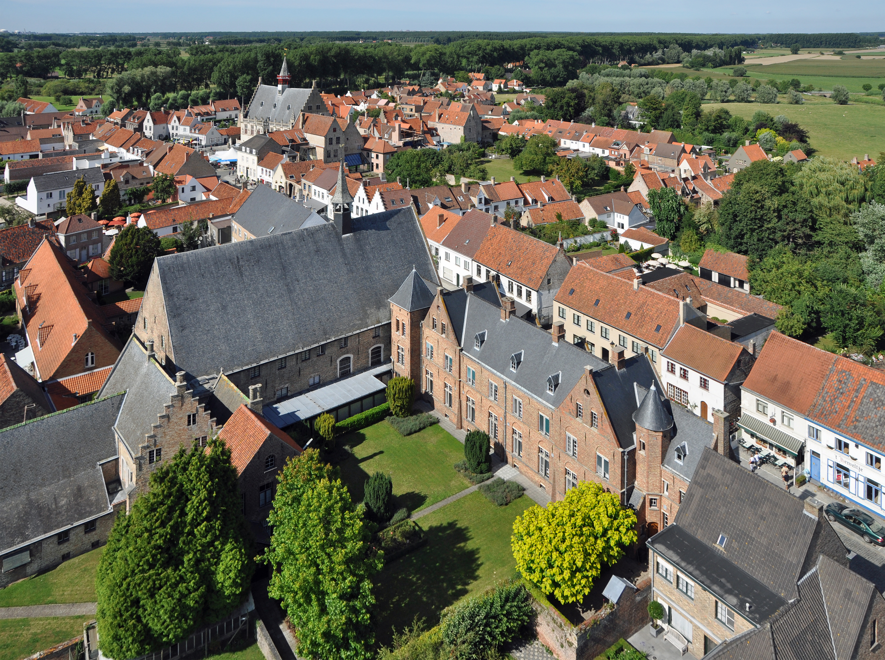 Damme (province of West Flanders, Belgium): general view of the town